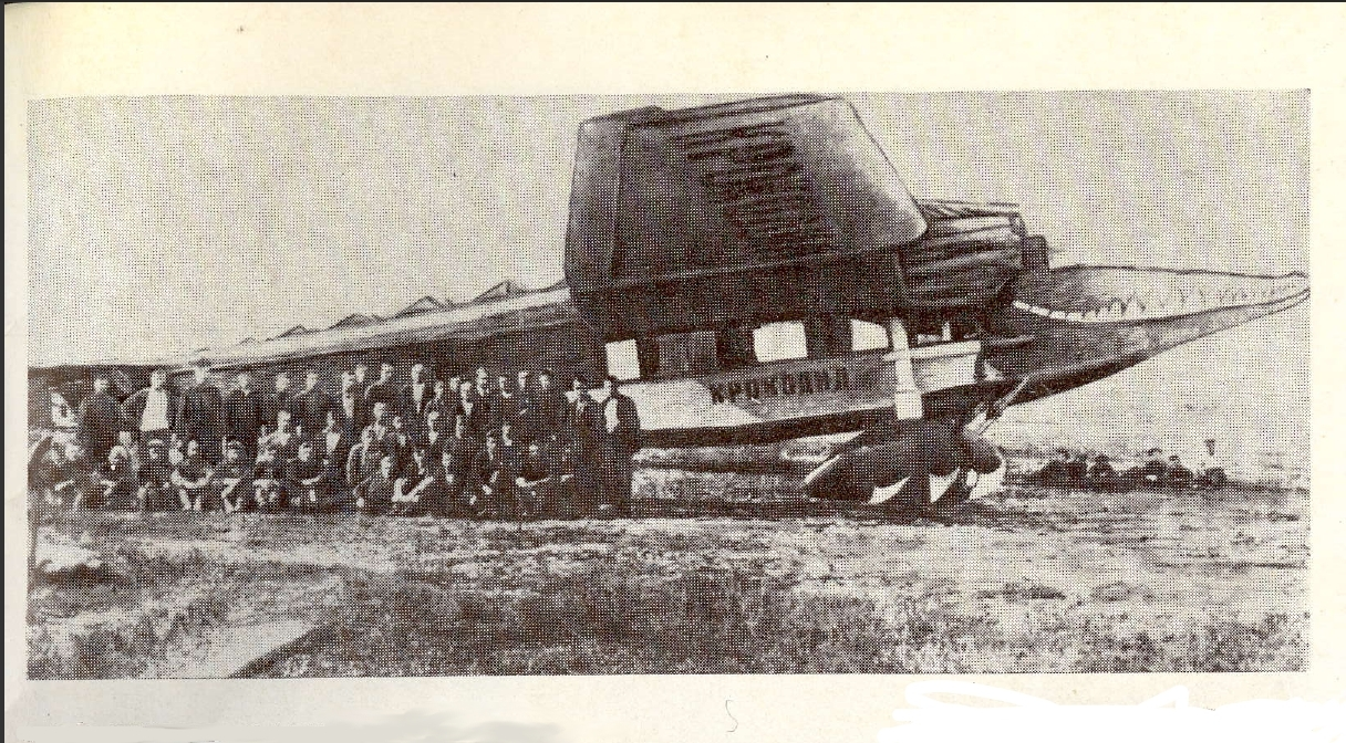 "Krokodil" is a propaganda plane. It was transformed in the factory n° 84 in the city of Khimki, in the region of Moscow